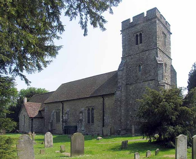 St Mary's Church, Kennington, Kent